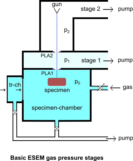 Basic ESEM gas pressure stages with specimen chamber at pressure p0, stage 1 at p1, stage 2 at p2, pressure limiting apertures PLA1 and PLA2, specimen transfer chamber (tr-ch), pump manifold, gas supply and electron beam transfer from gun to specimen.